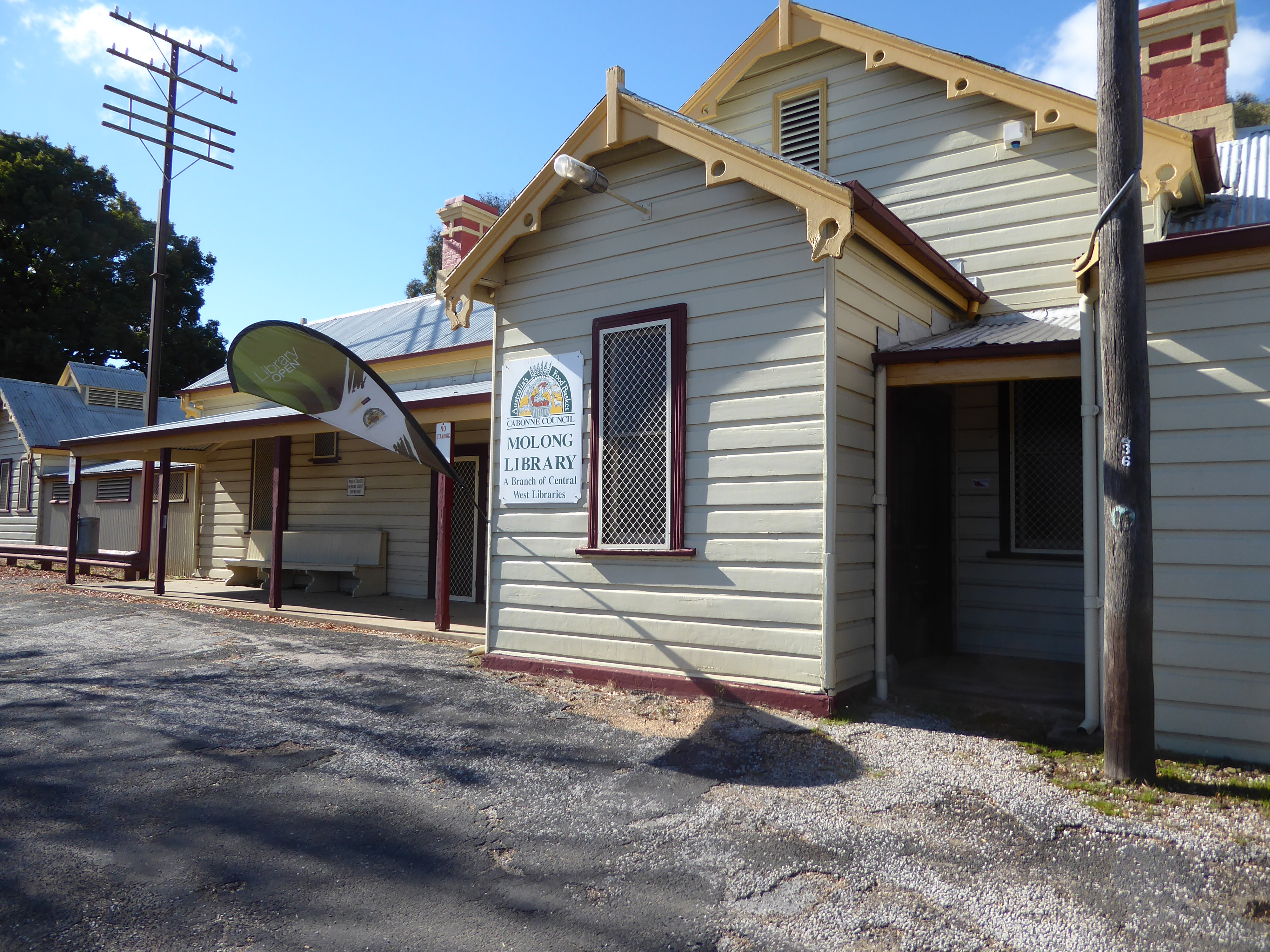 Molong Library, NSW 14 June 2017